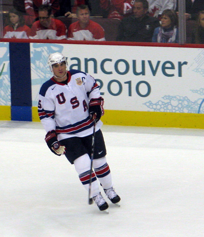 United States forward Jamie Langenbrunner during a break during the preliminary game against Canada during the 2010 Winter Olympics.